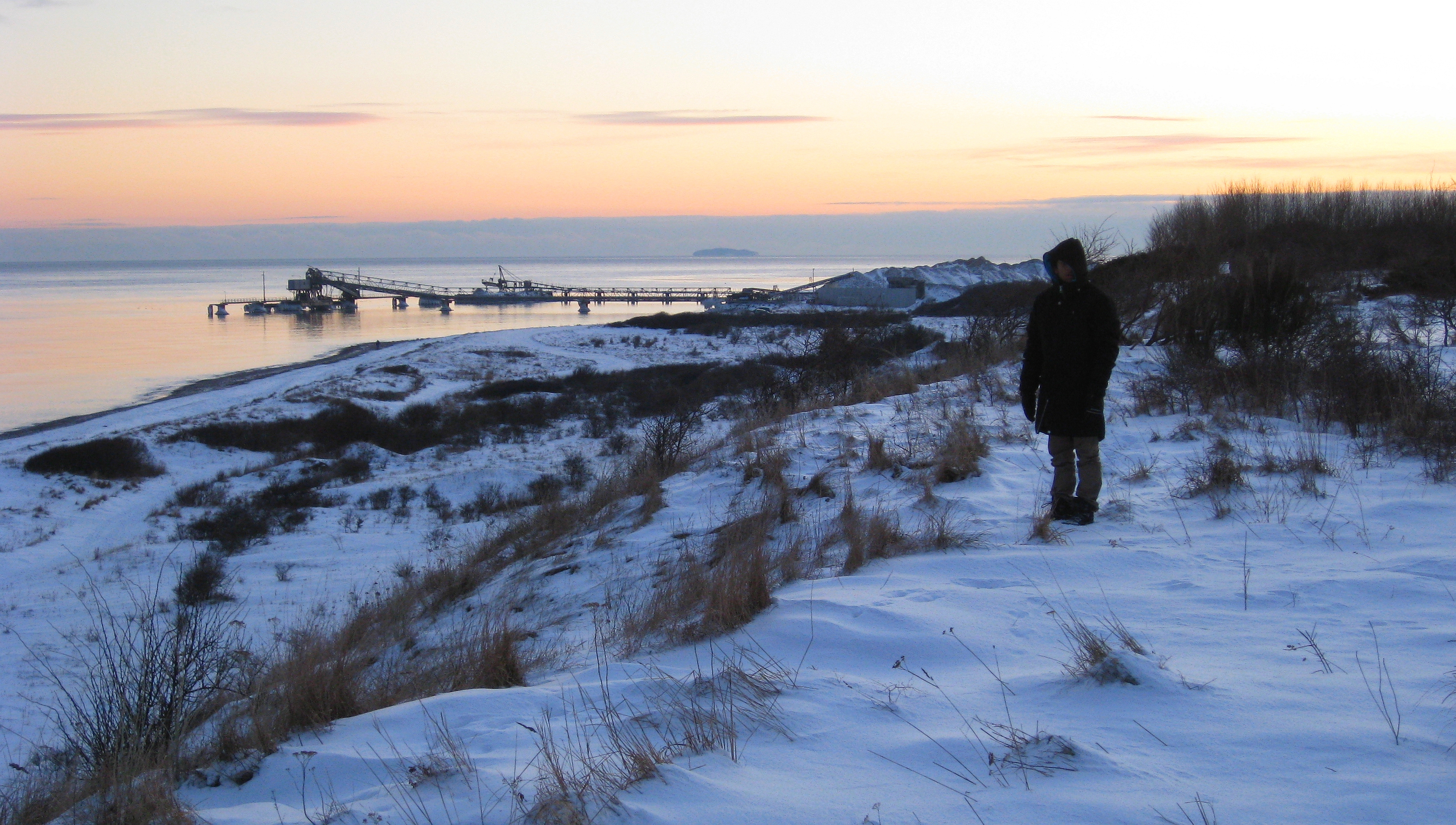 Glatved Beach in winter. The island of Hjelm can be seen on the horizon in the south.